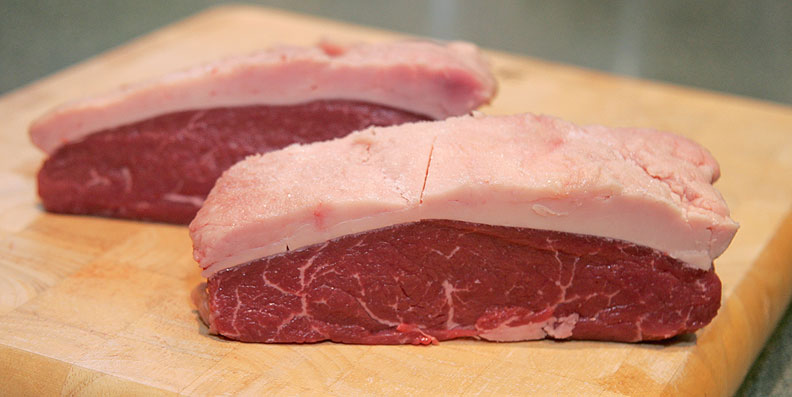 Rump cover steak.